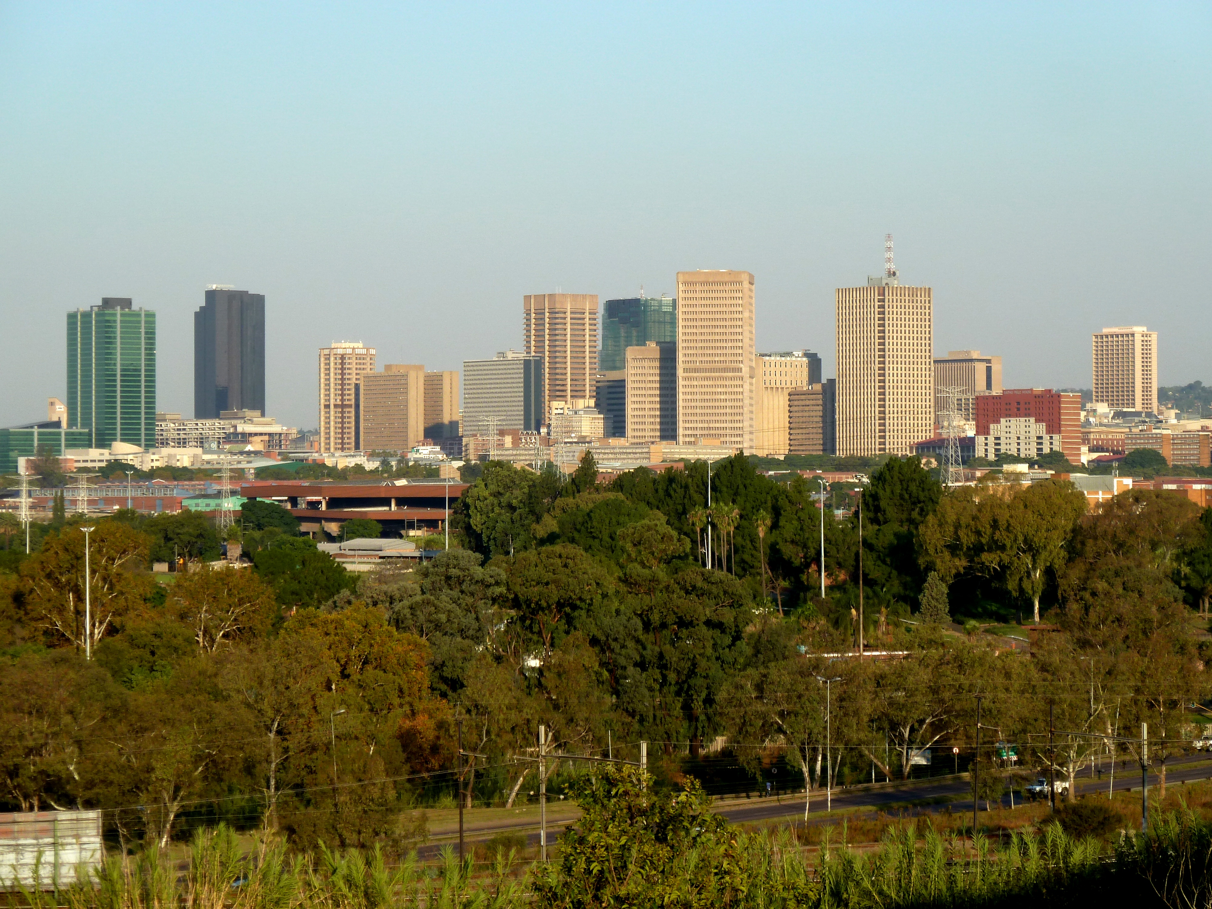 Pretoria CBD as seen from the TUT campus